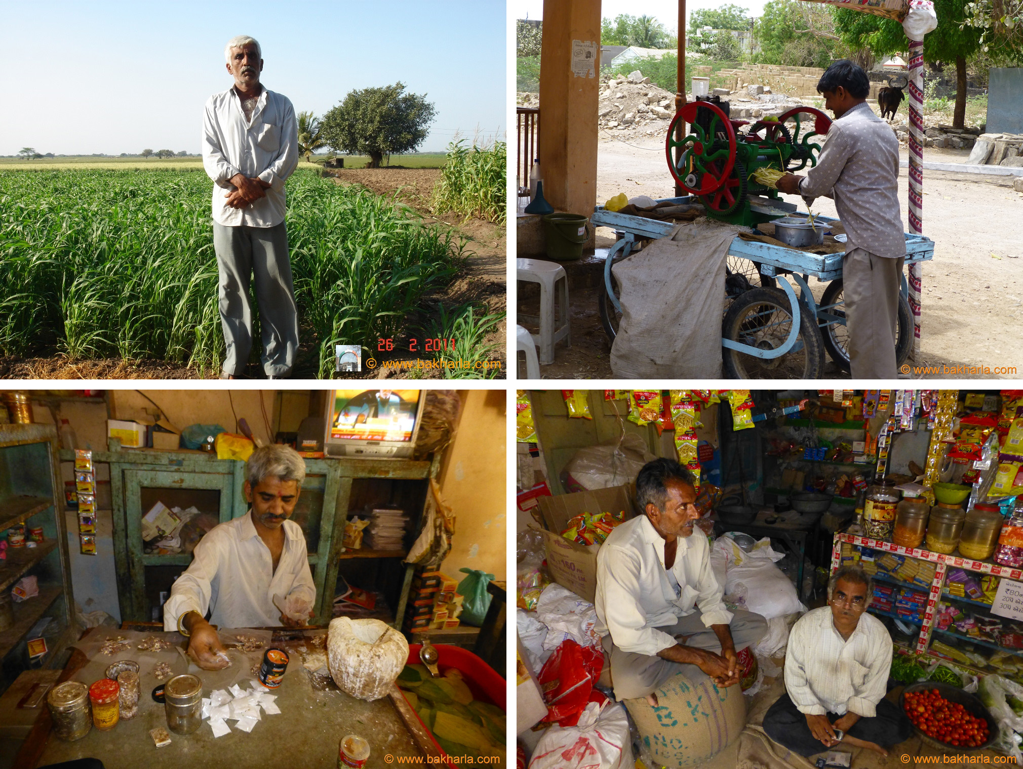 Photo showing 4 different types of businesses that exist successfully in Bakharla's economy.